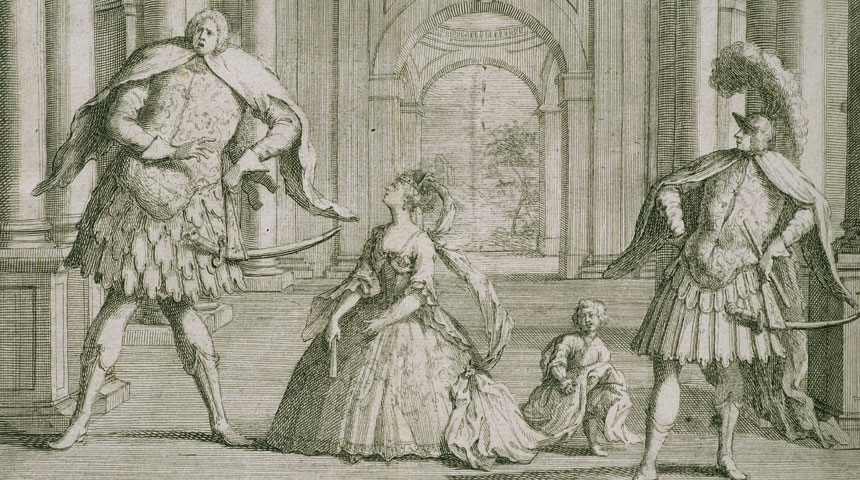 engraving of Handel's opera Flavio, with from left to right Senesino, Francesca Cuzzoni and Gaetano Berenstadt